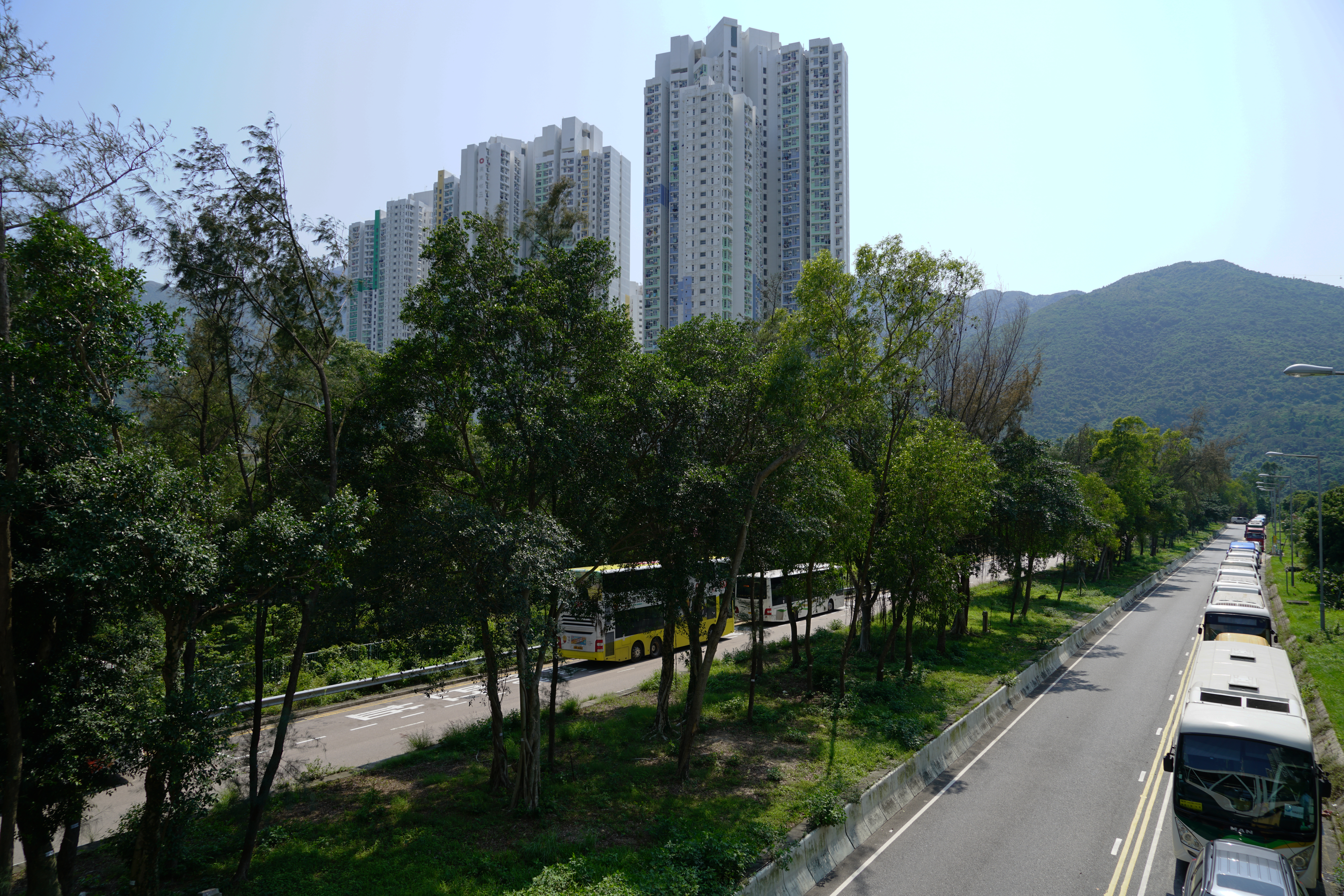 Yu Tung Road, Hong Kong.